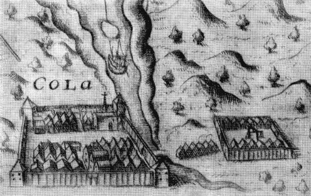 Kola stockade, engraving from Gerrit De Veer's book of 1598.